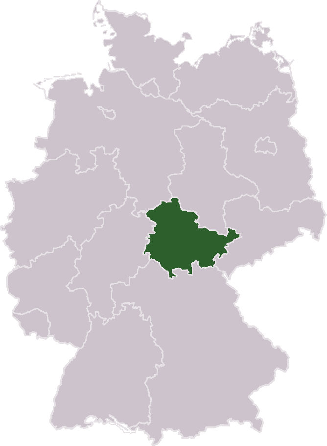 Free State Thuringia in Germany.